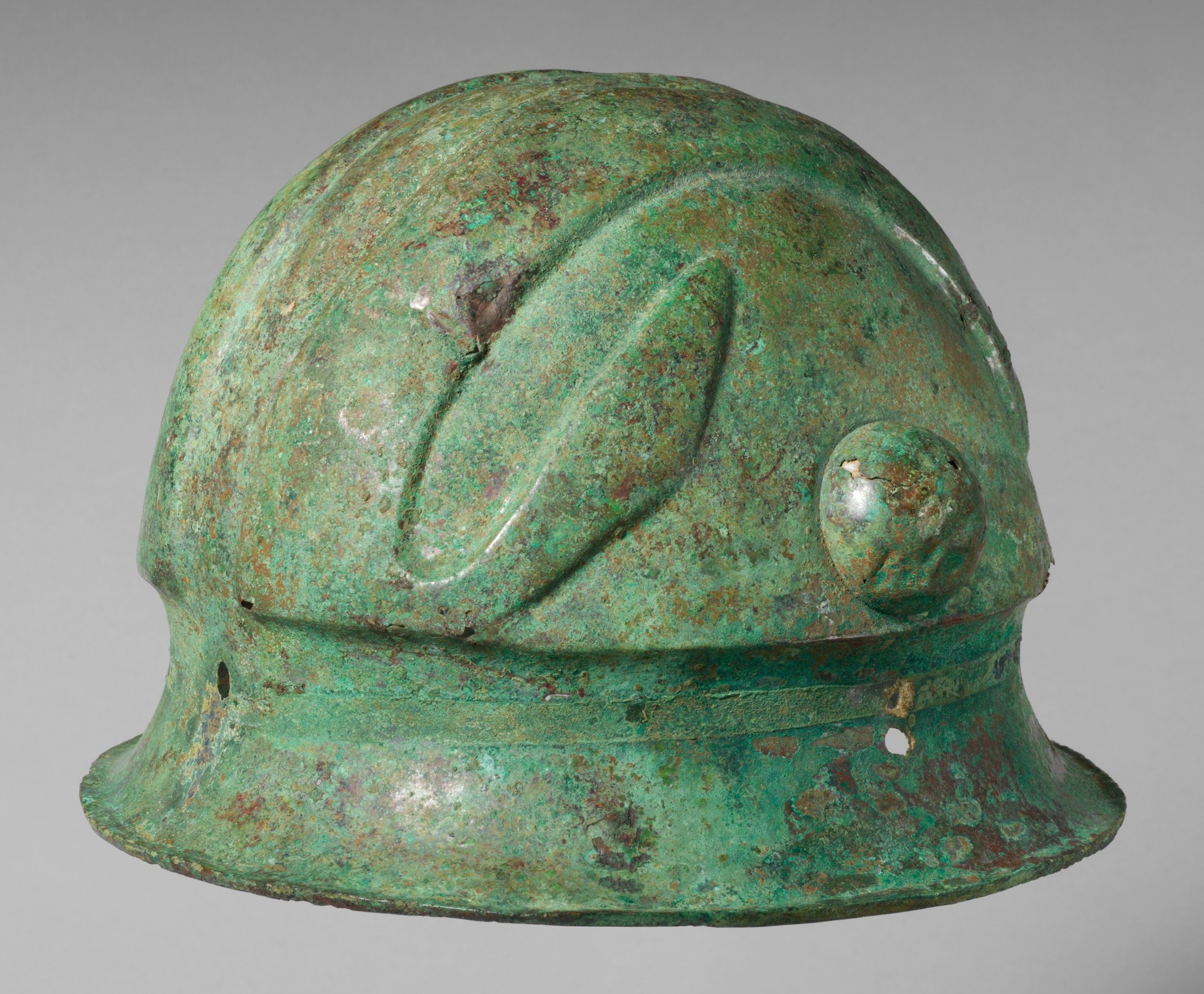 Italic, Picene; Helmet; Bronzes